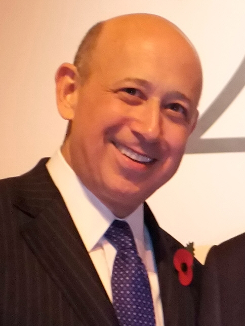 Lloyd C. Blankfein at FT Goldman Sachs Business Book of the Year Award 2011